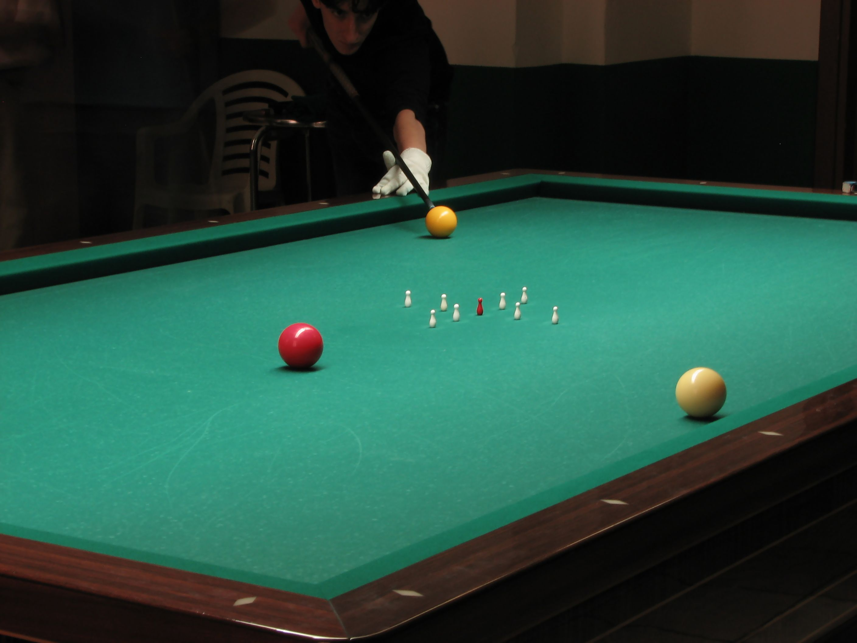 A game of nine-pin billiards (a variant of Five-pins)